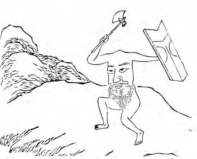 Xingtian (刑天), a deity who continues to fight against the supreme god even after his decapitation.